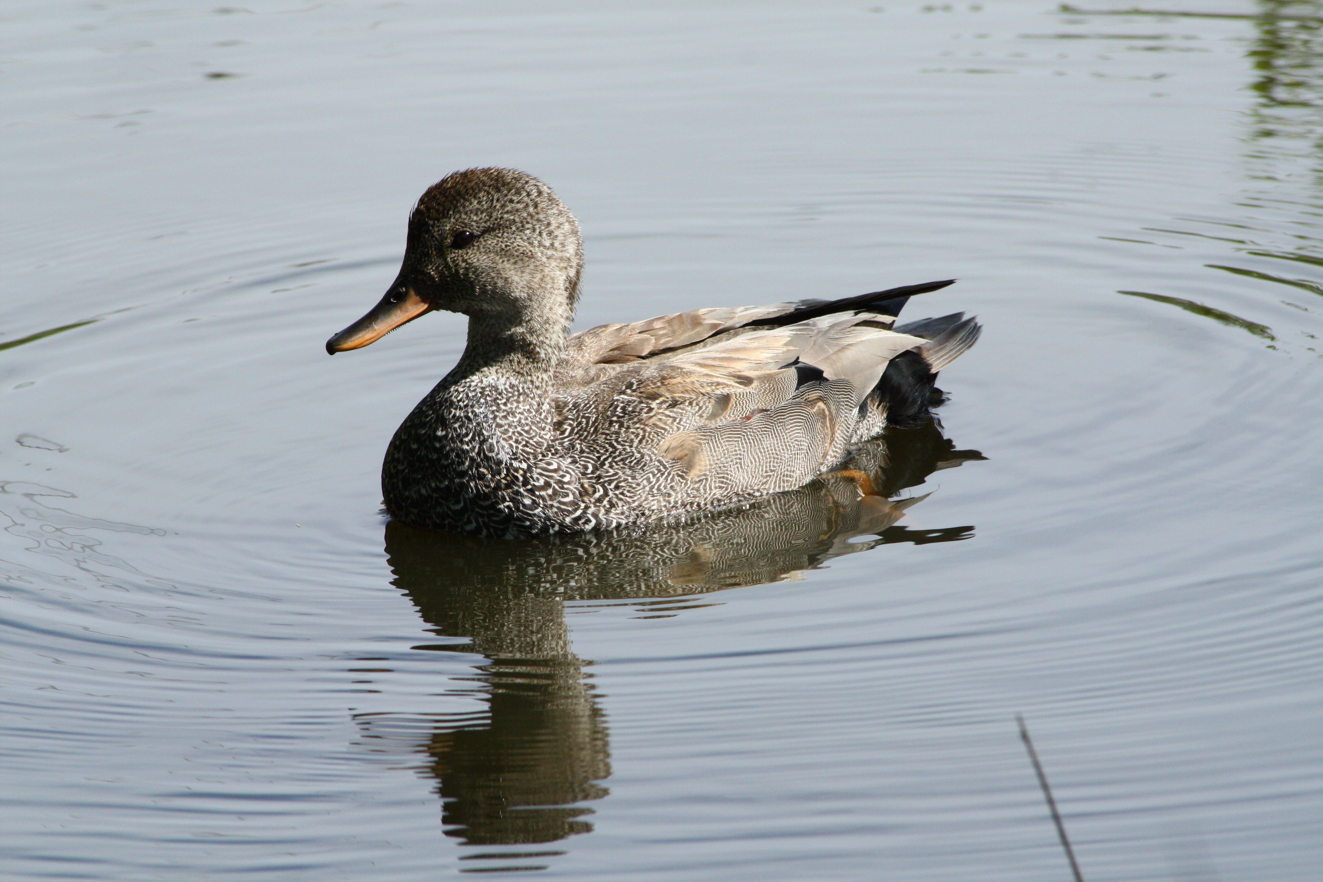 Gadwall male